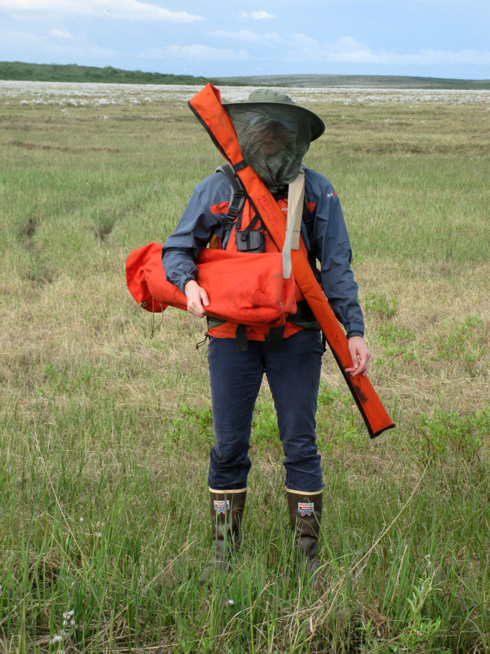 Mosquito protection